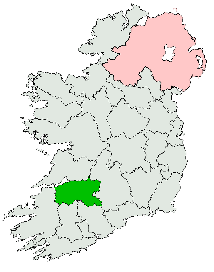 Map depicting the former Irish electoral constituency of Kildare-Wicklow, created under the Electoral Act 1923 and abolished under the Electoral (Revision of Constituencies) Act of 1947.